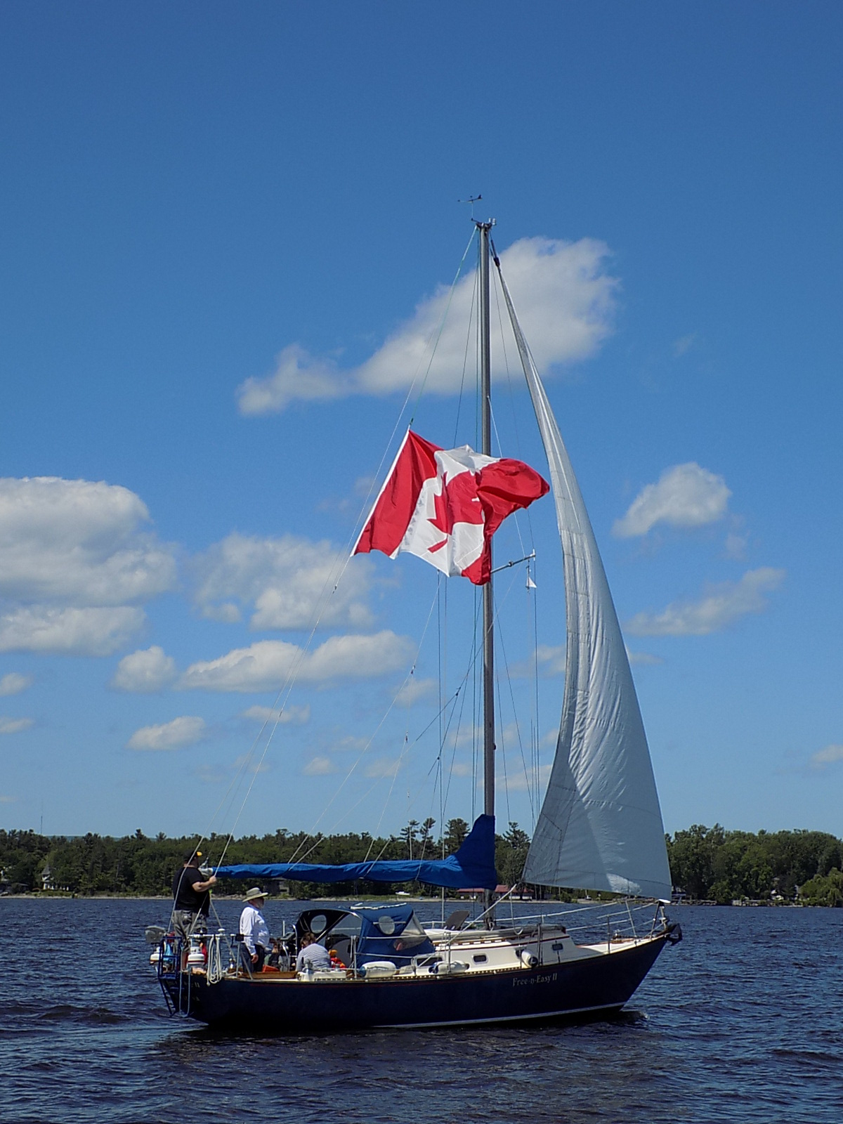 A C&C Corvette 31 sailboat named Free n Easy II.